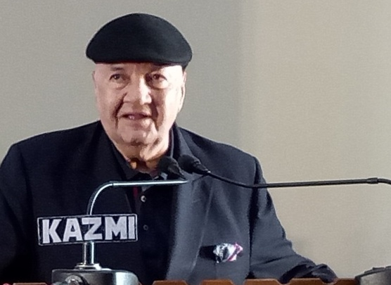 Prem Chopra speaking at an event